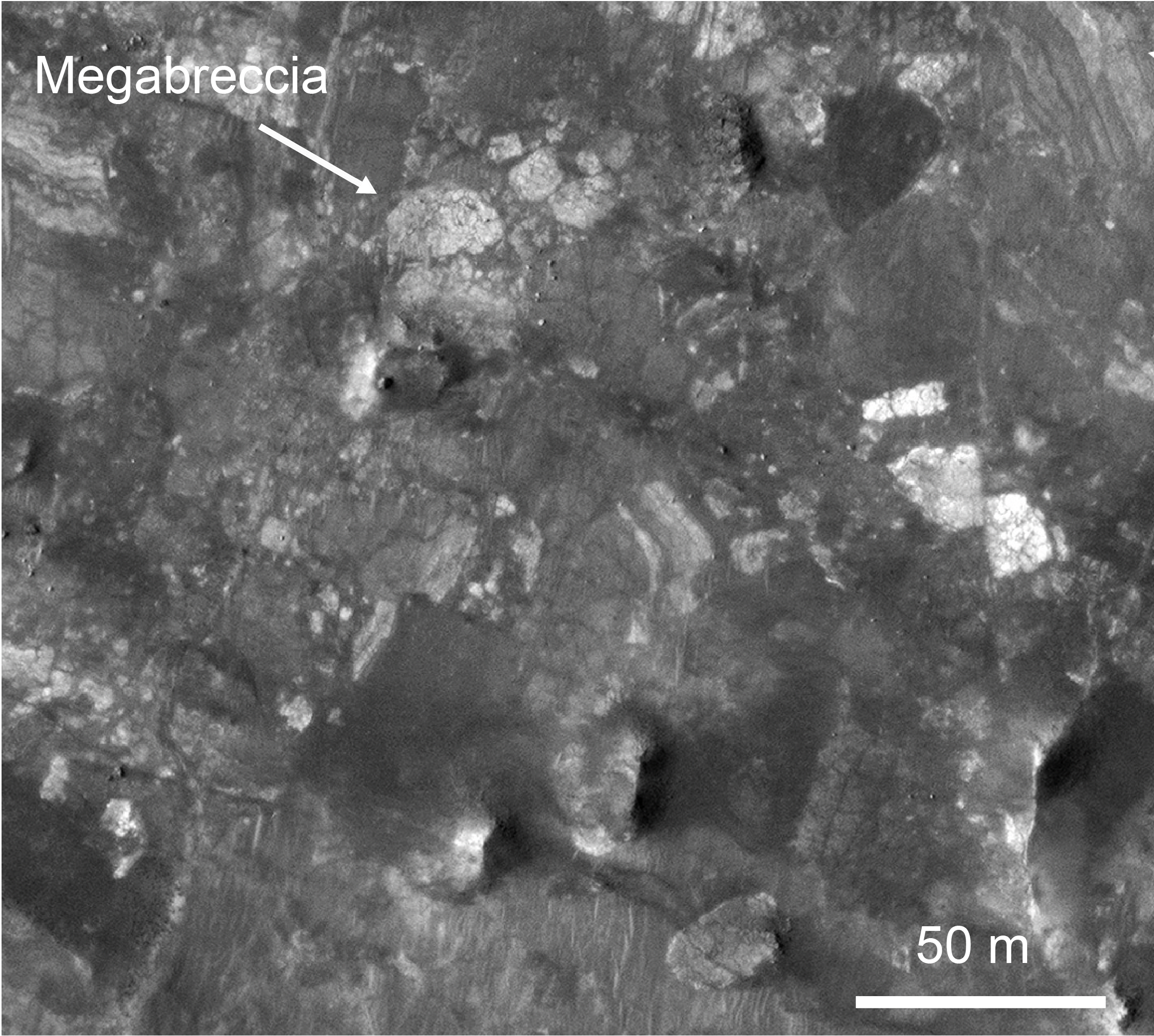 Megaberica